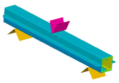 Mechanical test: three point bending on a beam.